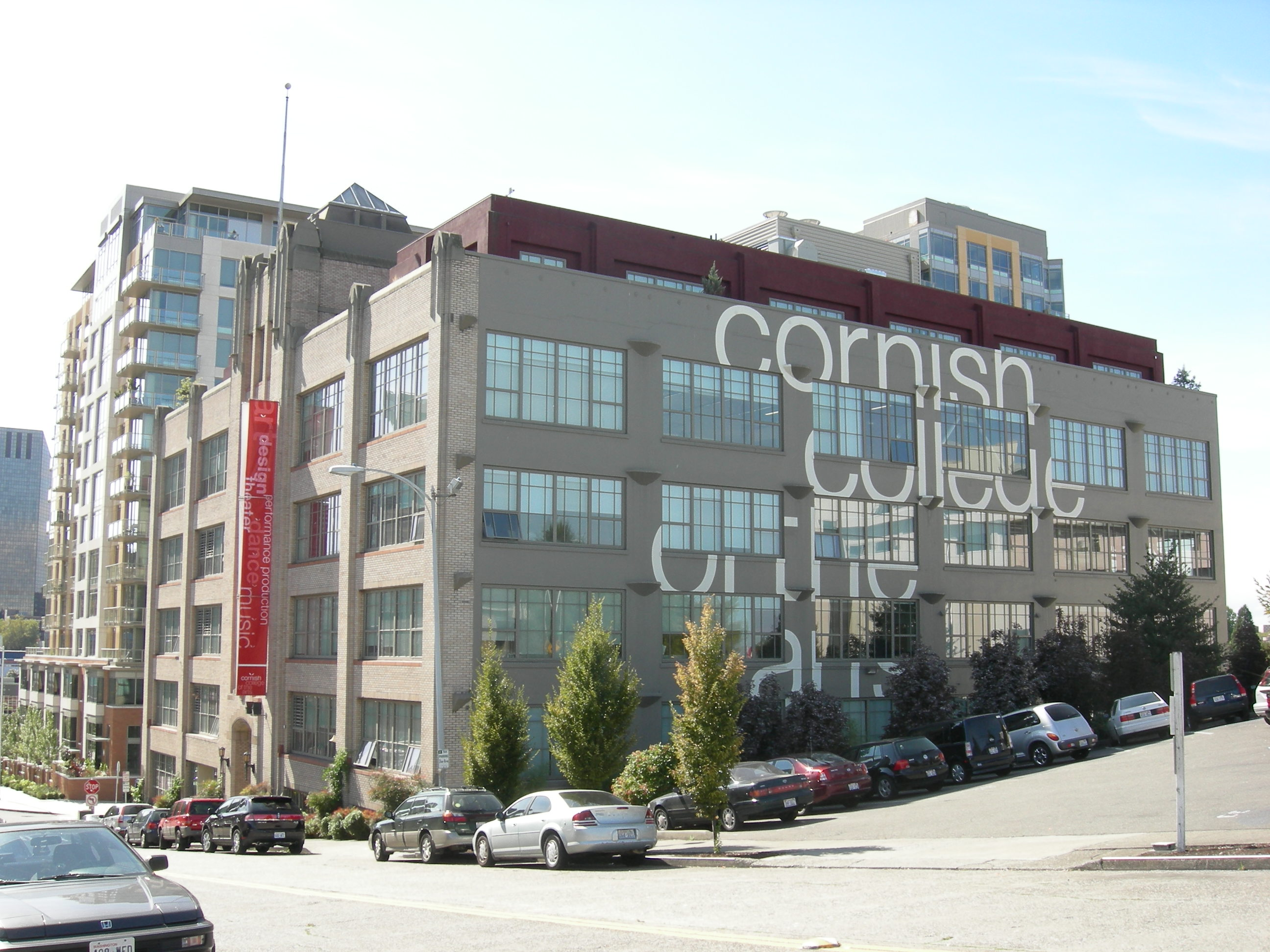 Main downtown building of Cornish College, Seattle, Washington. This is the historic William Volker Building, designed 1928 by Henry Bittman and Harold Adams. It is listed In The National Register of Historic Places, ID #83004236. The building is on the northeast edge of downtown Seattle, in what is sometimes called the "Denny Triangle" between downtown and the neighborhood that was historically known as Cascade and within what has come more recently to be referred to as South Lake Union, a term that includes Cascade.